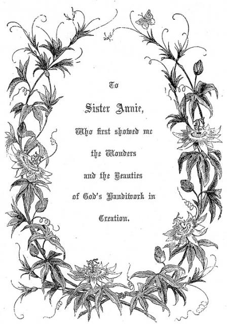 (Removed after reusableart request.)